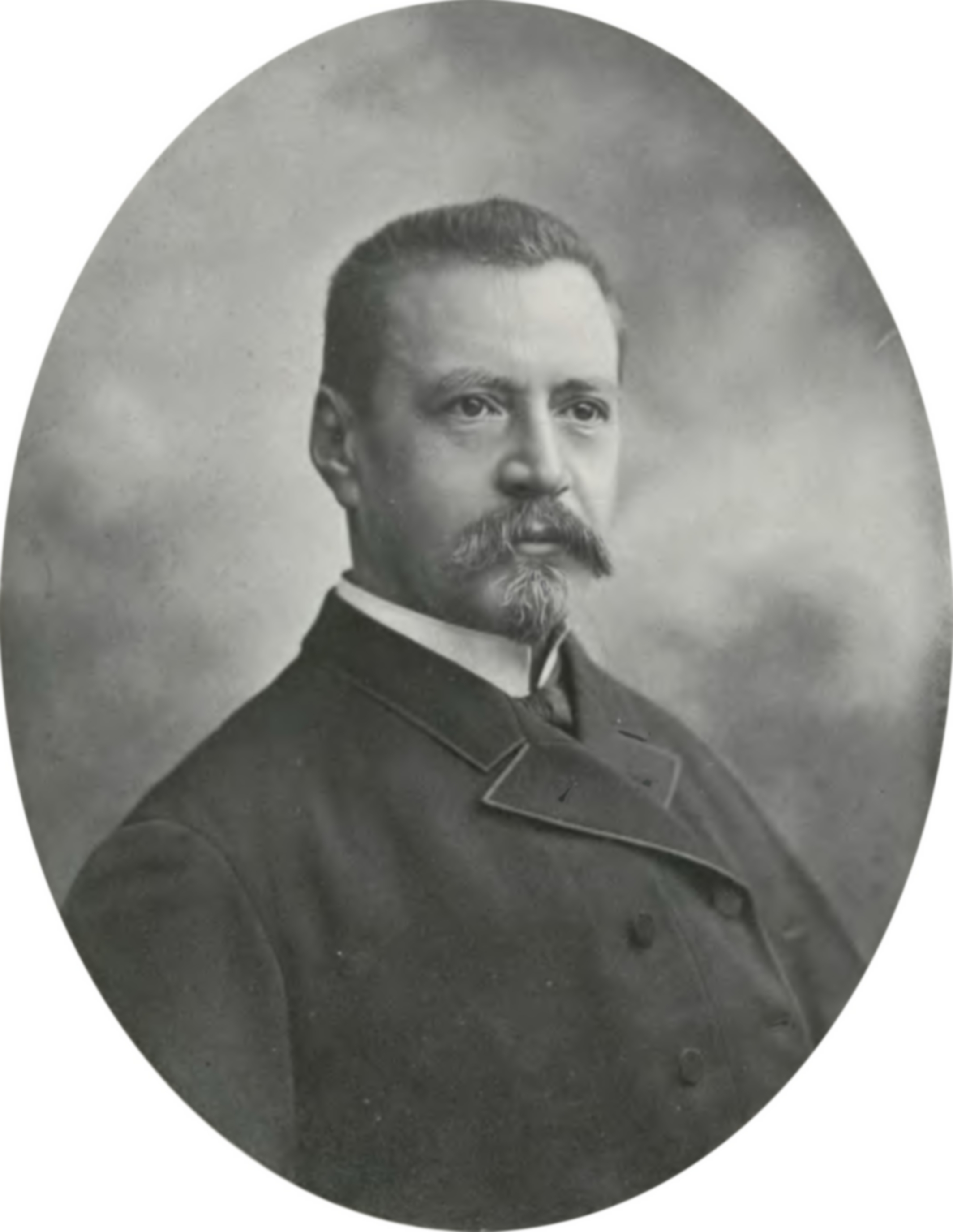 Fotografia portretowa Michała Elwiro Andriollego.